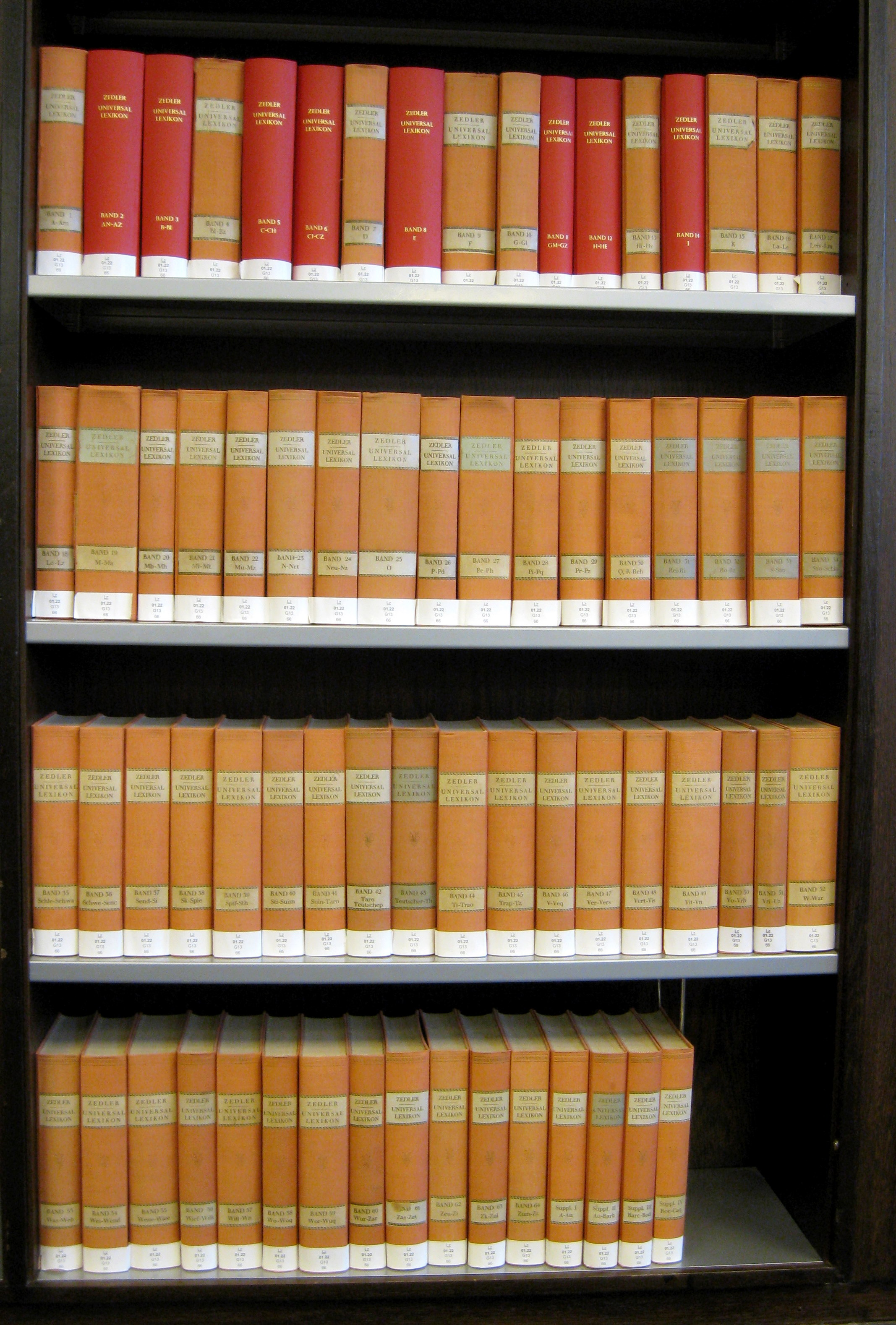 University library of Nijmegen: Grosses vollständiges Universal-Lexicon Aller Wissenschafften und Künste (Zedler)